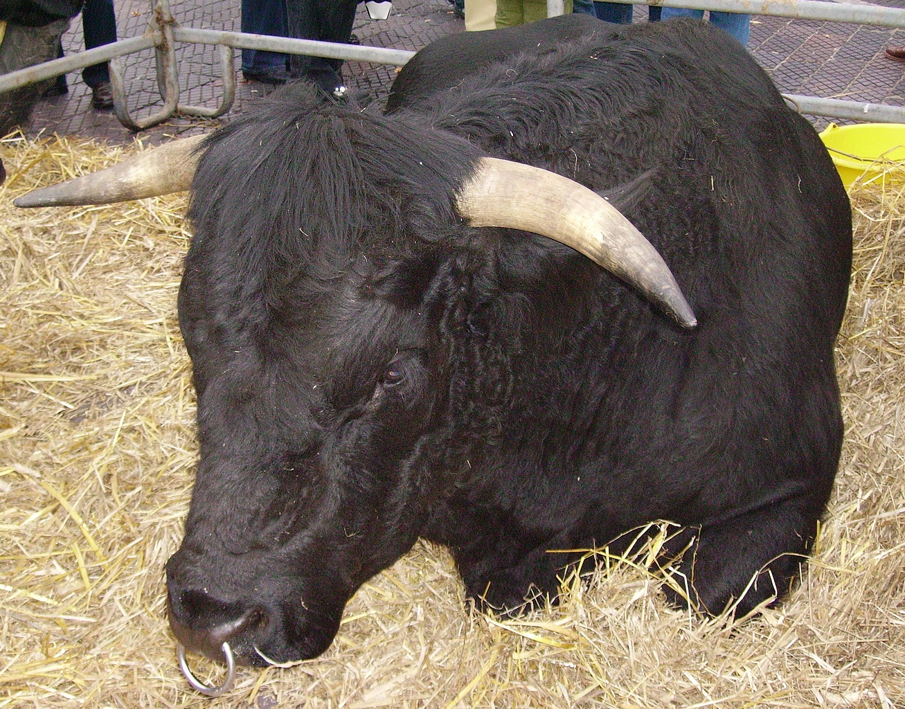 Welsh Black cattle